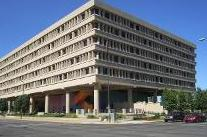 Minton-Capehart Federal Building, Indianapolis, IN